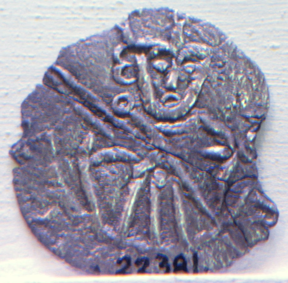 Coin depicting Eric III of Denmark, Erik Lamm (1120-1146). King of Denmark 1137-1146. Photo taken at Lunds universitets historiska museum by the uploader.